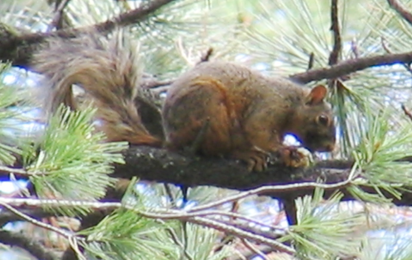 Chiricahua fox squirrel (Sciurus nayaritensis). At Rustler Park, Chiricahua Mountains, Cochise County, southeastern Arizona, U.S.